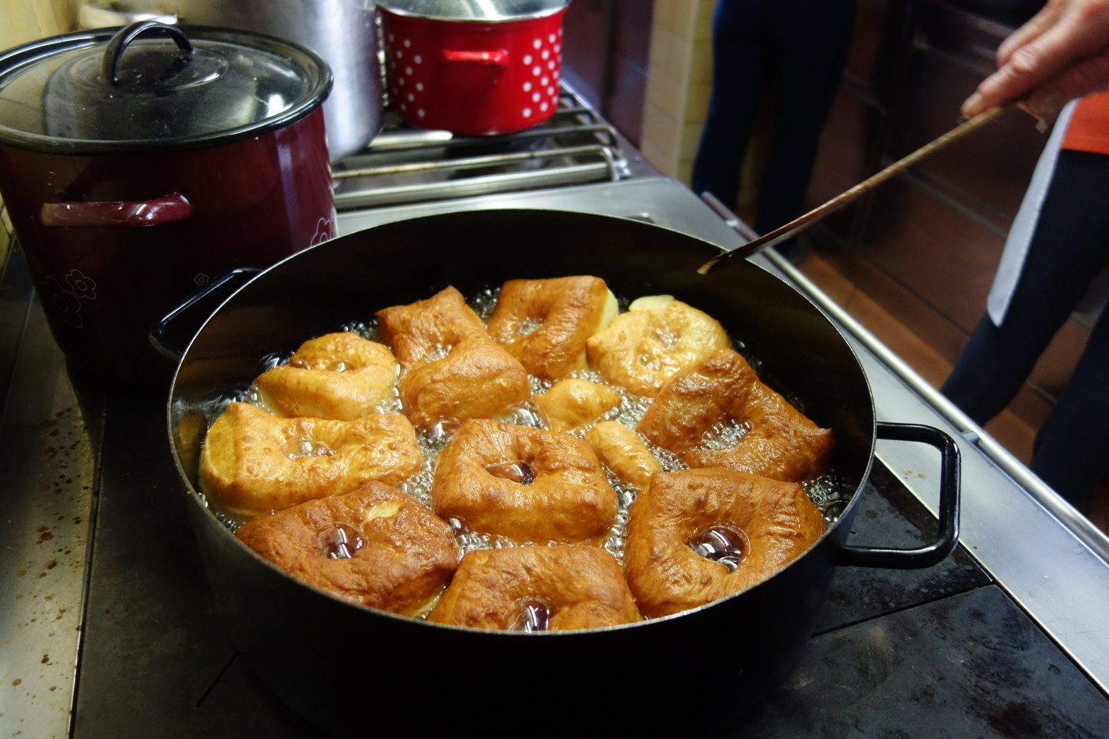 Kvašeni flancati (fried yeast dough)